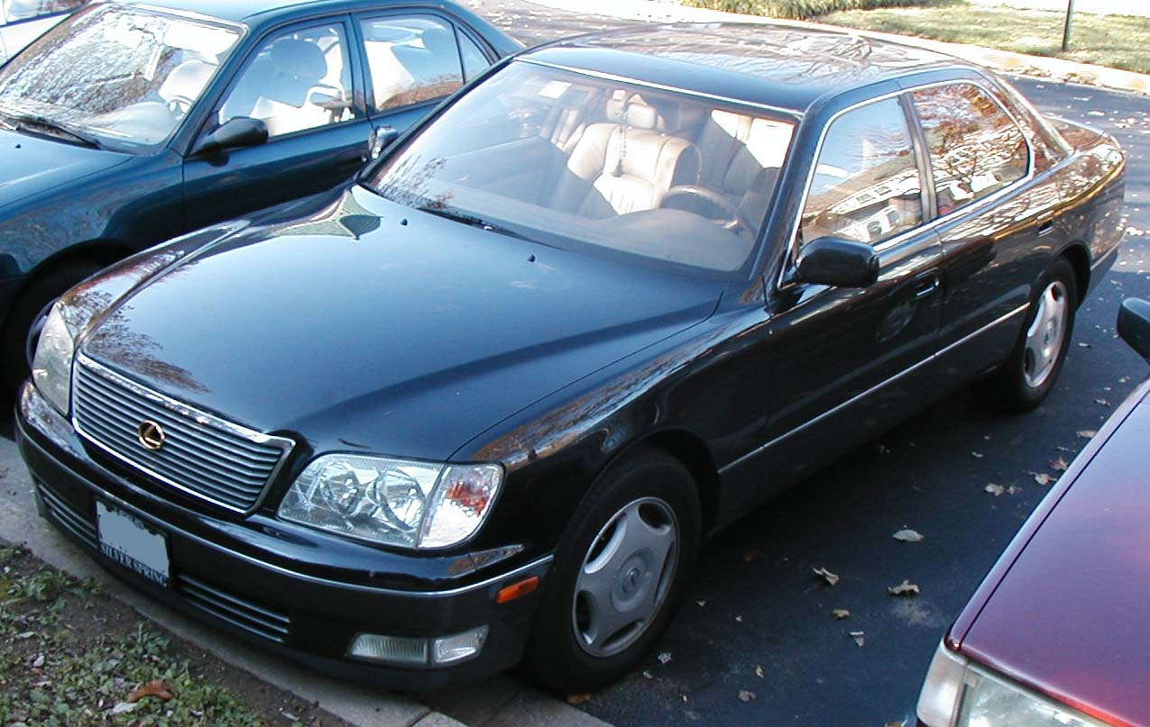 1998-2000 Lexus LS400 photographed in USA.